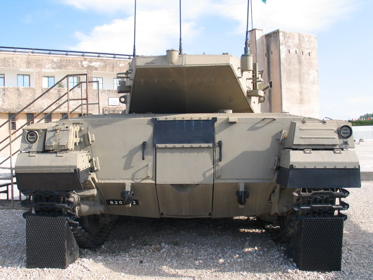 Description: Israeli Merkava Mk I MBT in Yad la-Shiryon Museum, Israel. 2005. Source: Photo by me, User:Bukvoed.